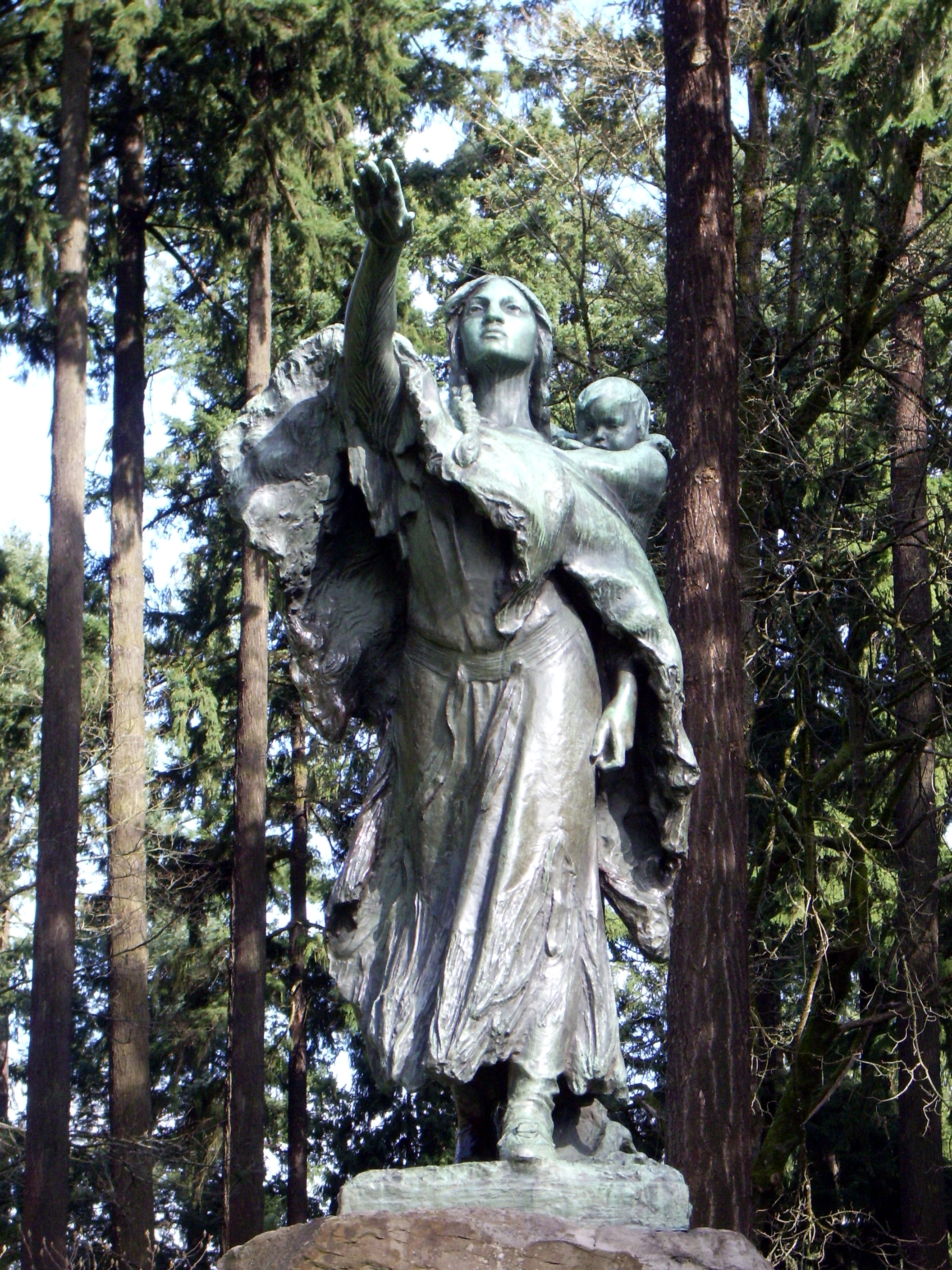 Statue of Sacajawea in Washington Park, Portland, viewed from the west. It was sculpted by Alice Cooper from Denver, Colorado and unveiled in 1905 at the Lewis & Clark Centennial Exposition. It depicts Sacajawea pointing the way westward. See also Eva Emery Dye.